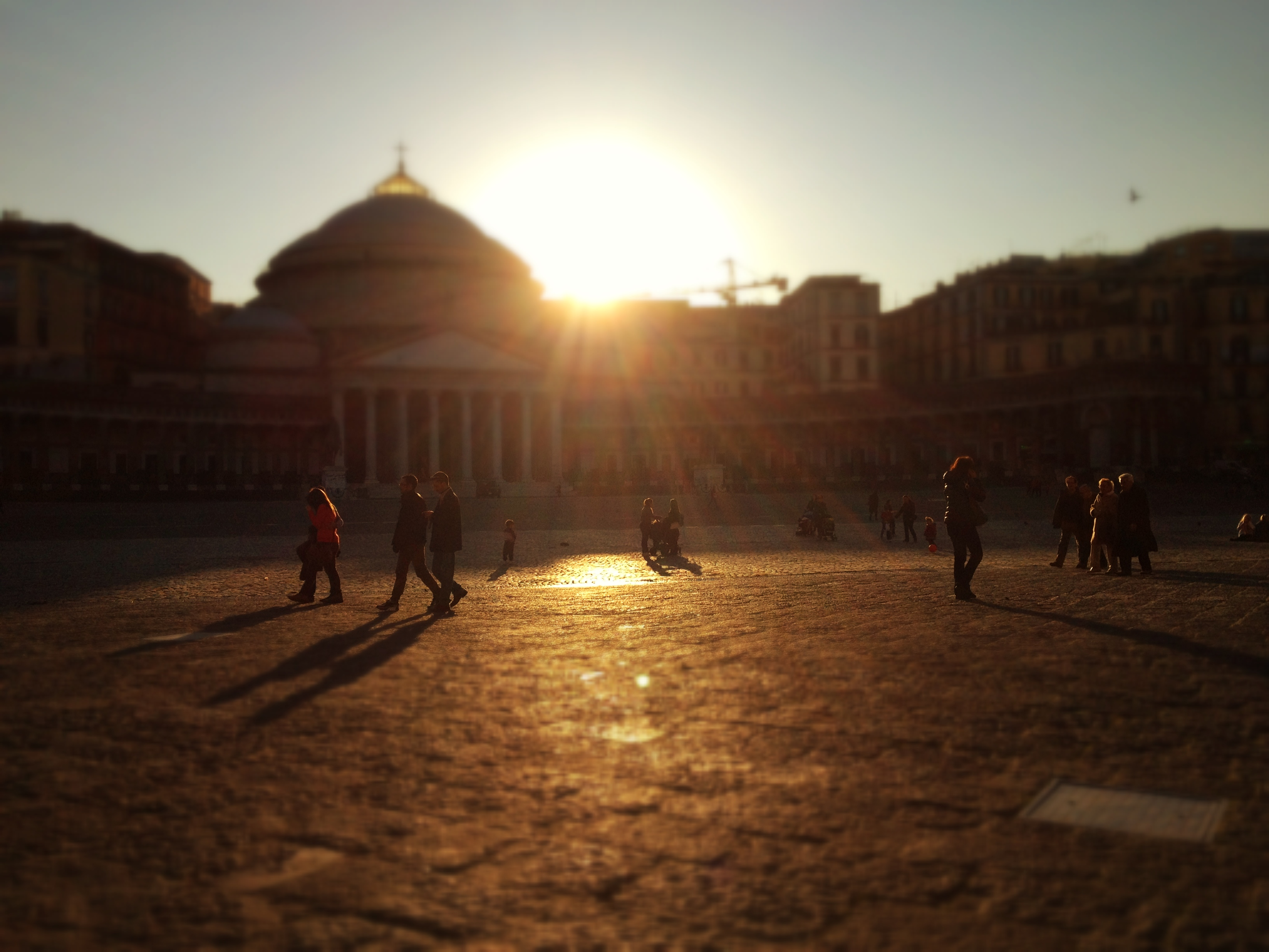 Piazza Plebiscito, Napoli, at sunset